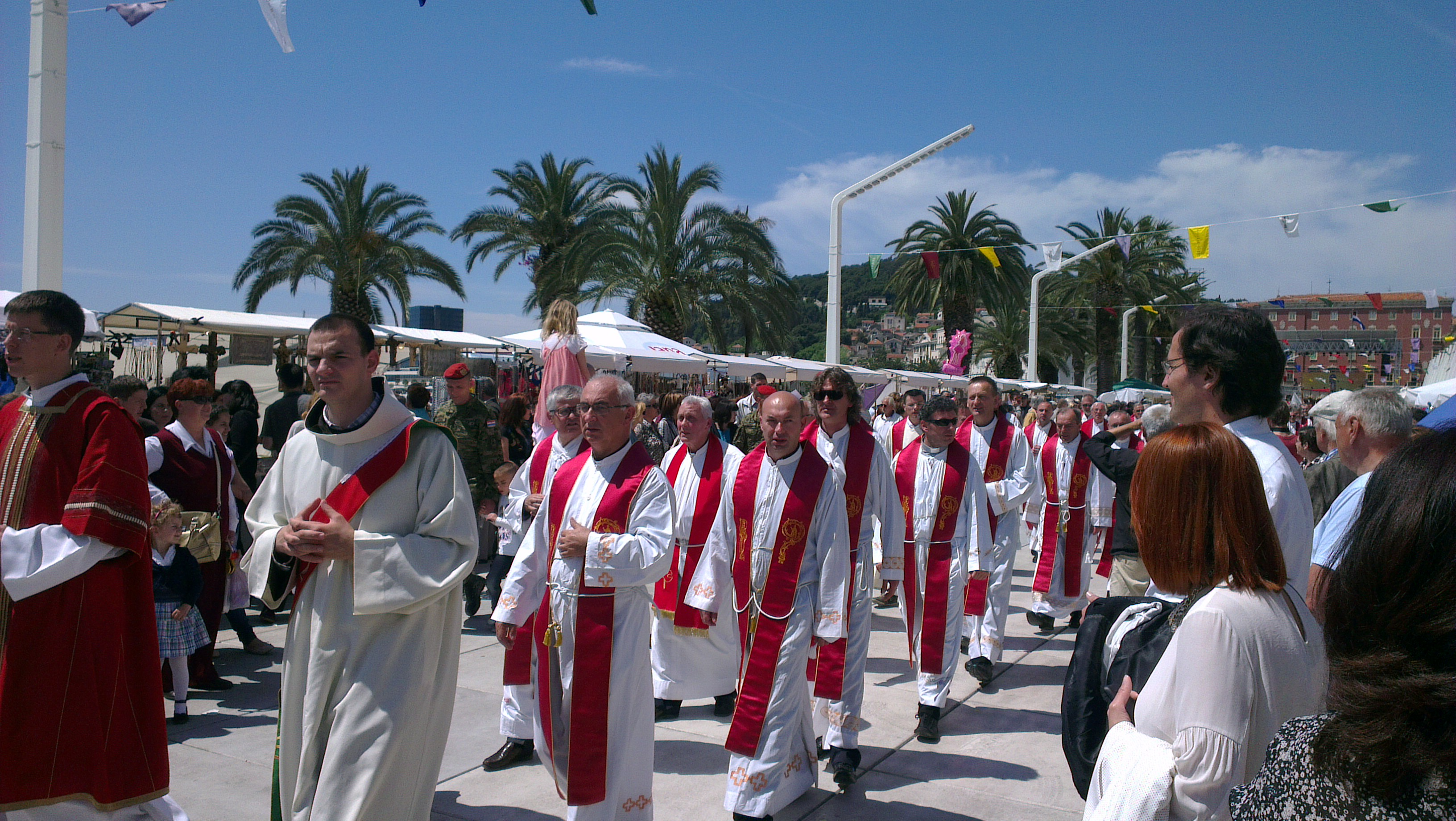 Sudamja